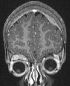 "This is a coronal post-gadolinium T1-weighted MPRAGE* MRI of a 2 year-old female with known neuroblastoma. There are orbital and skull vault metastases, with associated enhancing soft-tissue masses. The skull lesions are extradural masses which deform the underlying brain. The right orbital lesion forms a superior extraconal mass, depressing the right globe. Neuroblastoma not uncommonly metastasises to the skull. The metastases are generally osteolytic, enlarge the bone, strip the dura from it, and produce intracranial mass effect. Other skull metastases include osteogenic sarcoma (usually osteoblastic lesions); leukaemia; Wilm’s tumour; Ewing’s tumour; and hepatoblastoma." (dr Dawes)